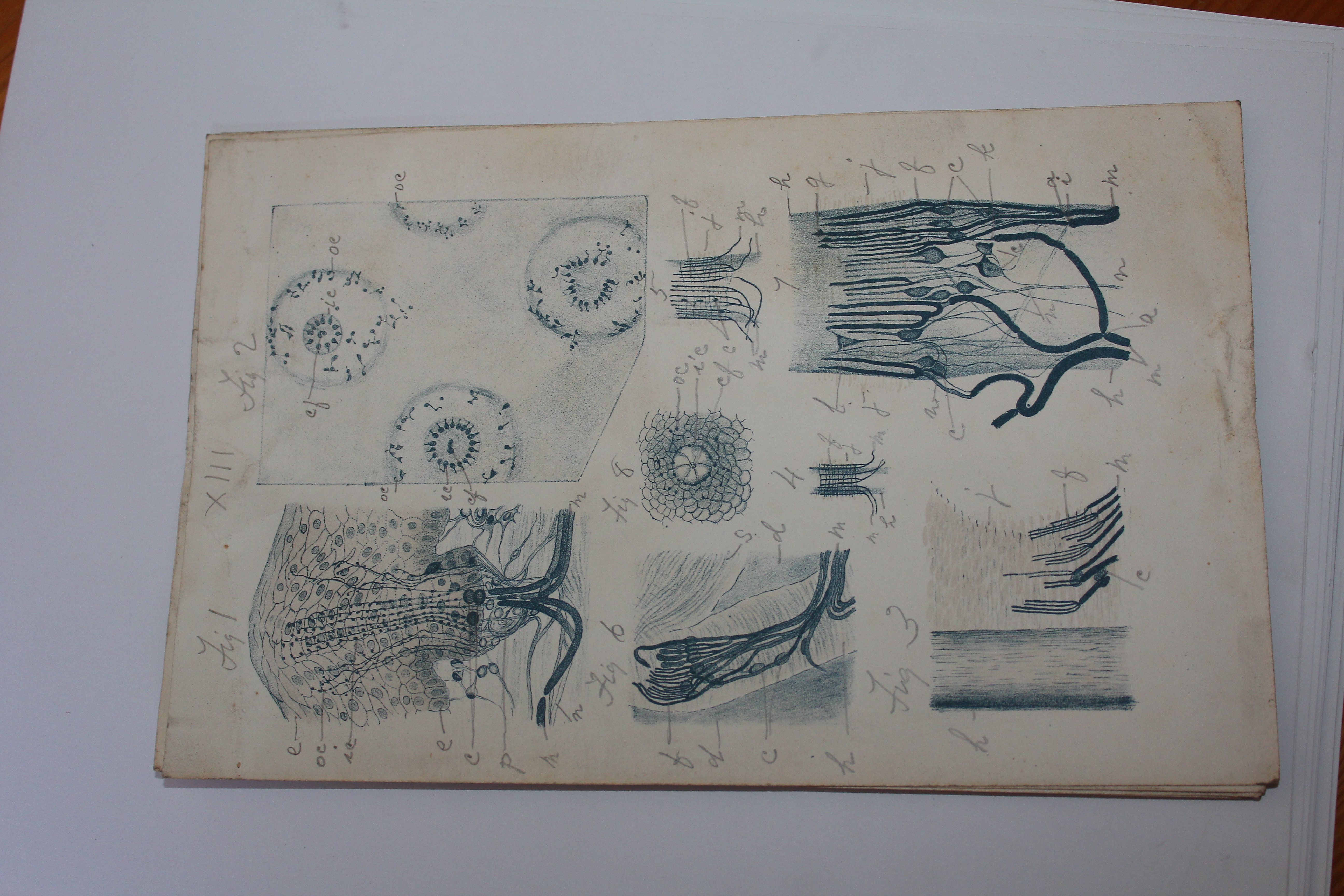 Charles robin work 2